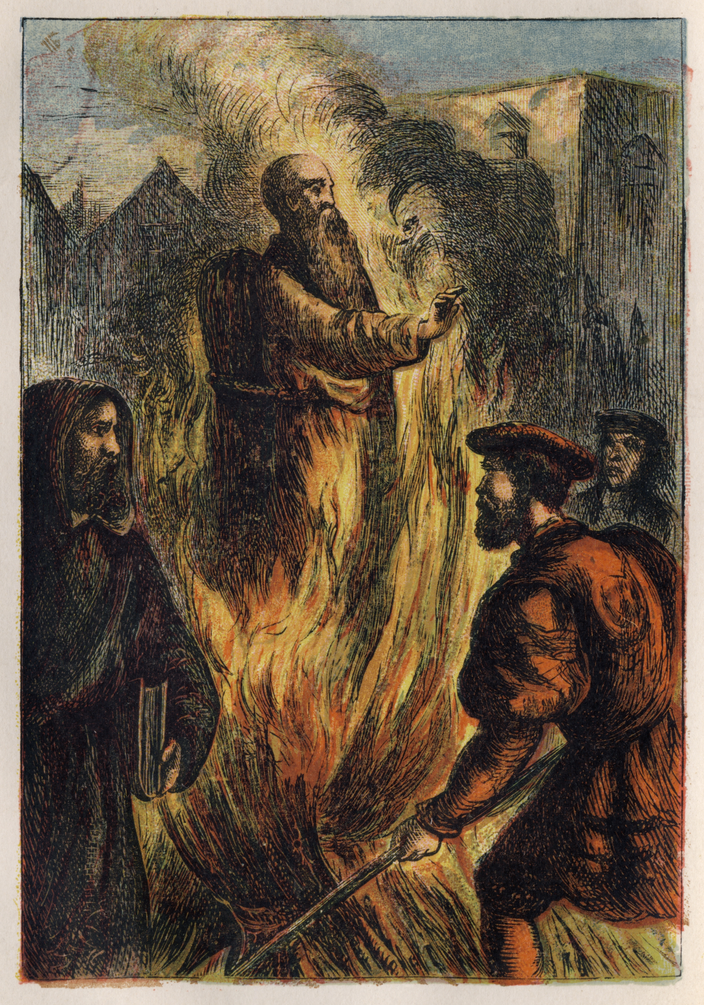 "Death of [Archbishop Thomas] Cranmer", from an 1887 copy of Foxe's Book of Martyrs illustrated by Kronheim.